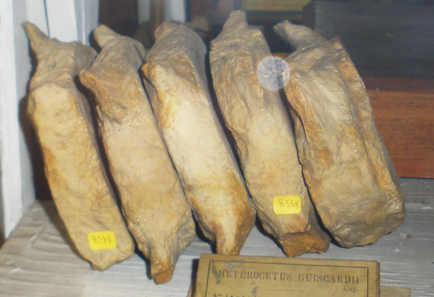 Fossil of Heterocetus guiscardii, an extinct whale